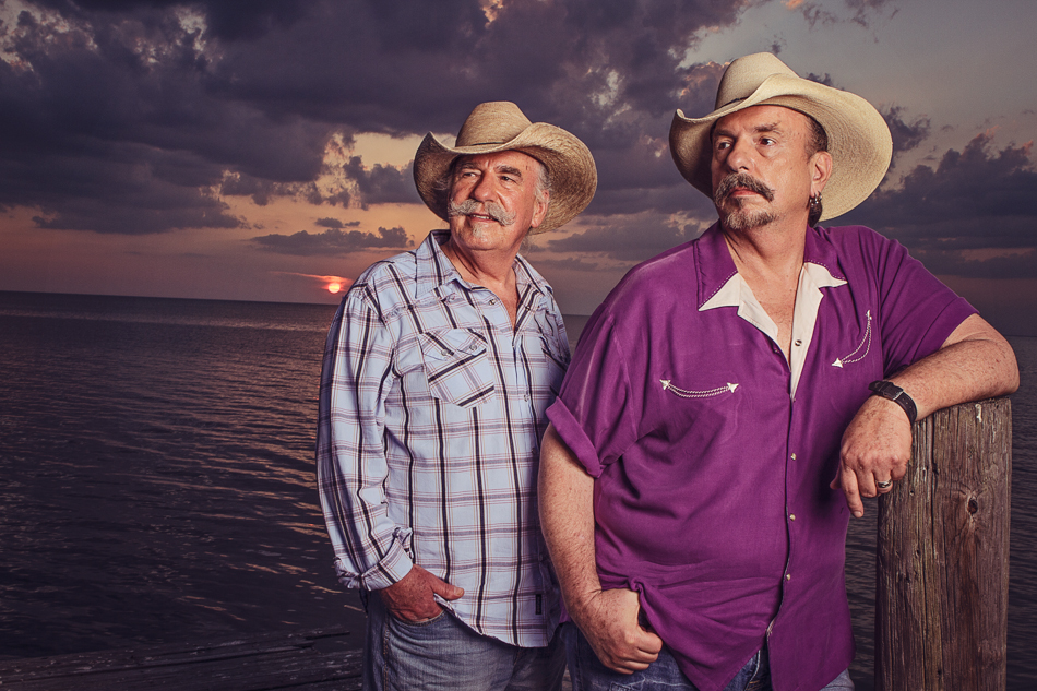 This is a picture of The Bellamy Brothers.